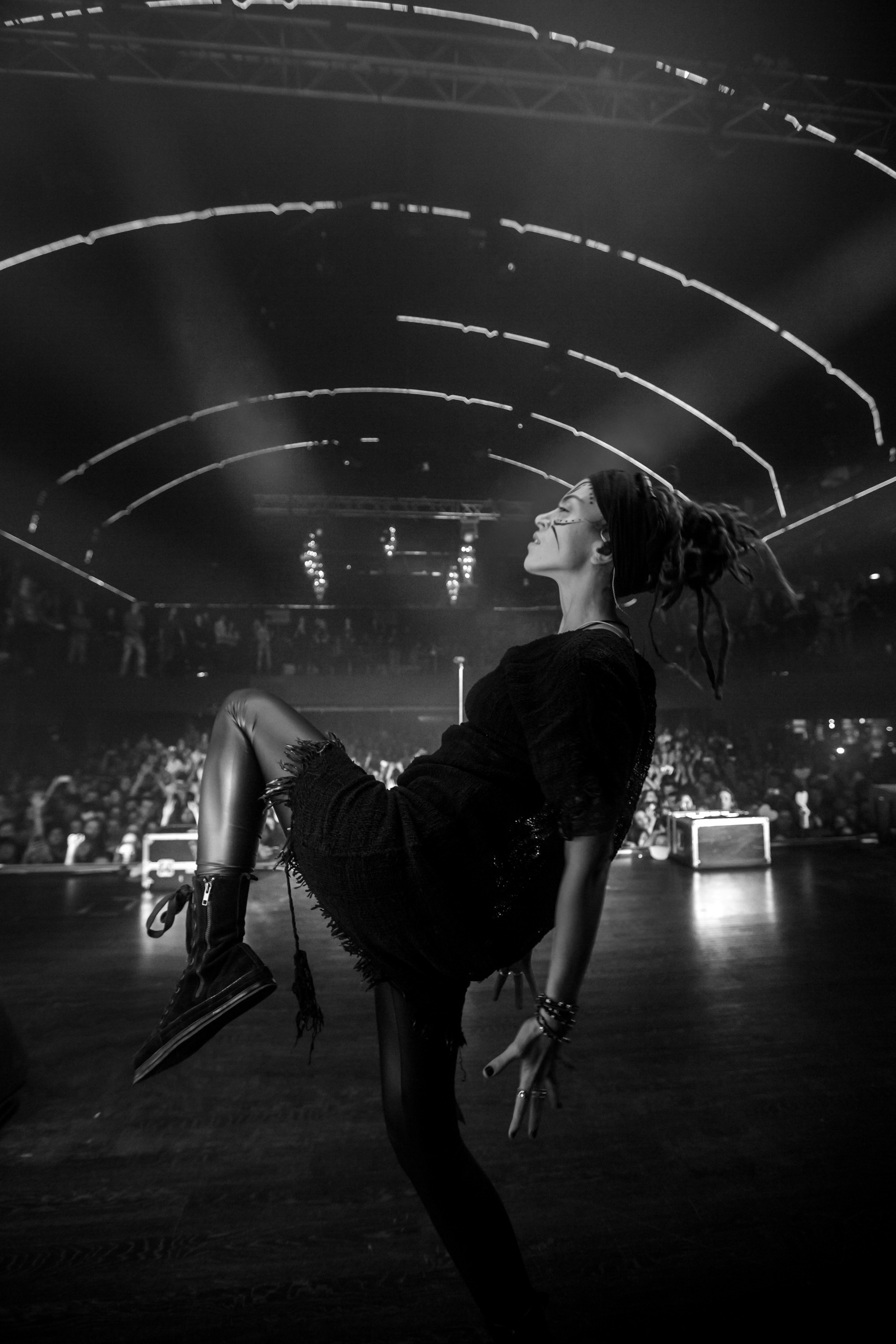 Ольга Маркес на концерте в «Известия Hall», ноябрь, 2014. Фотограф: Кристина Кис